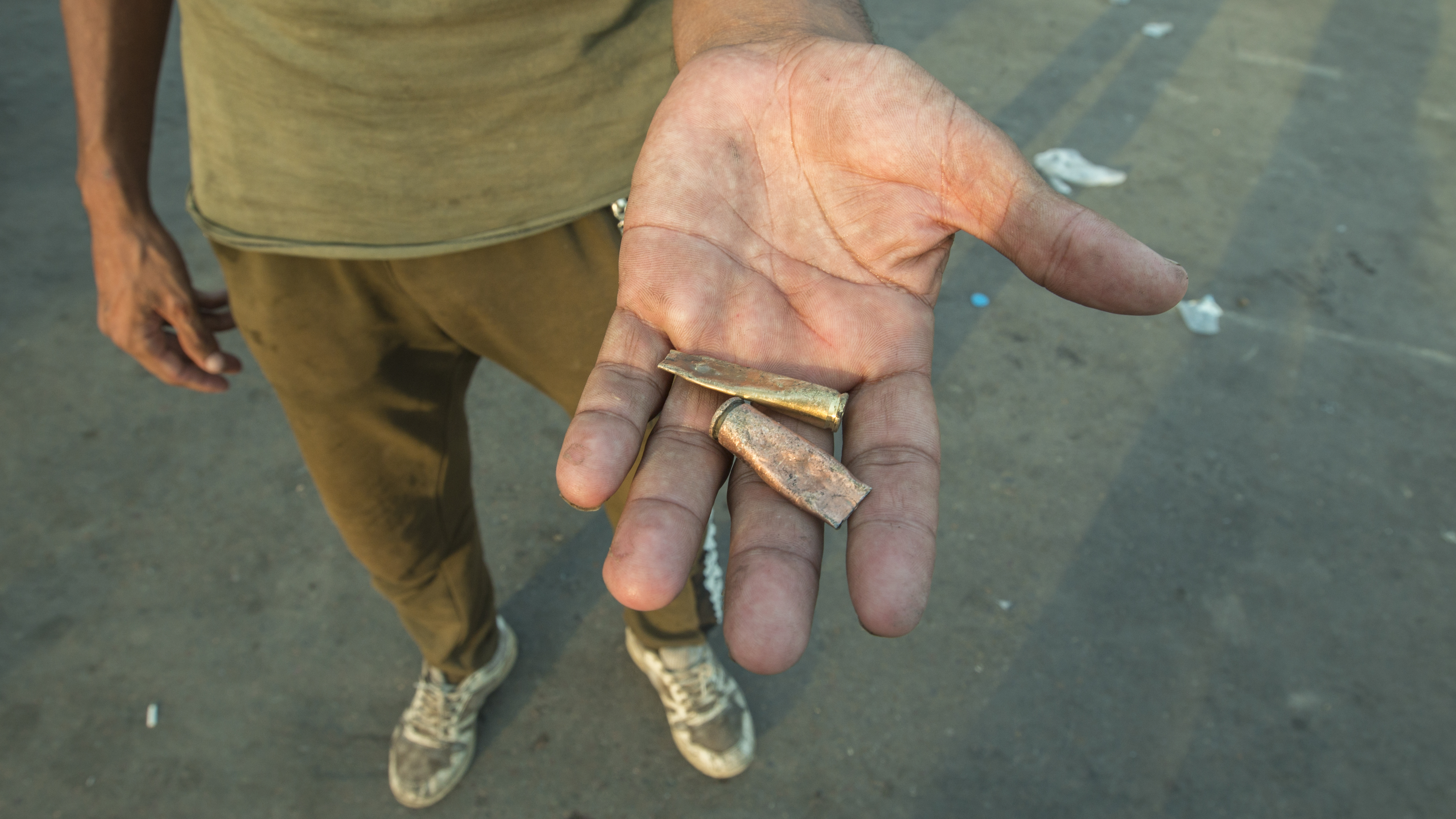 Evidence of live ammunition used against demonstrators in the October Revolution in Baghdad